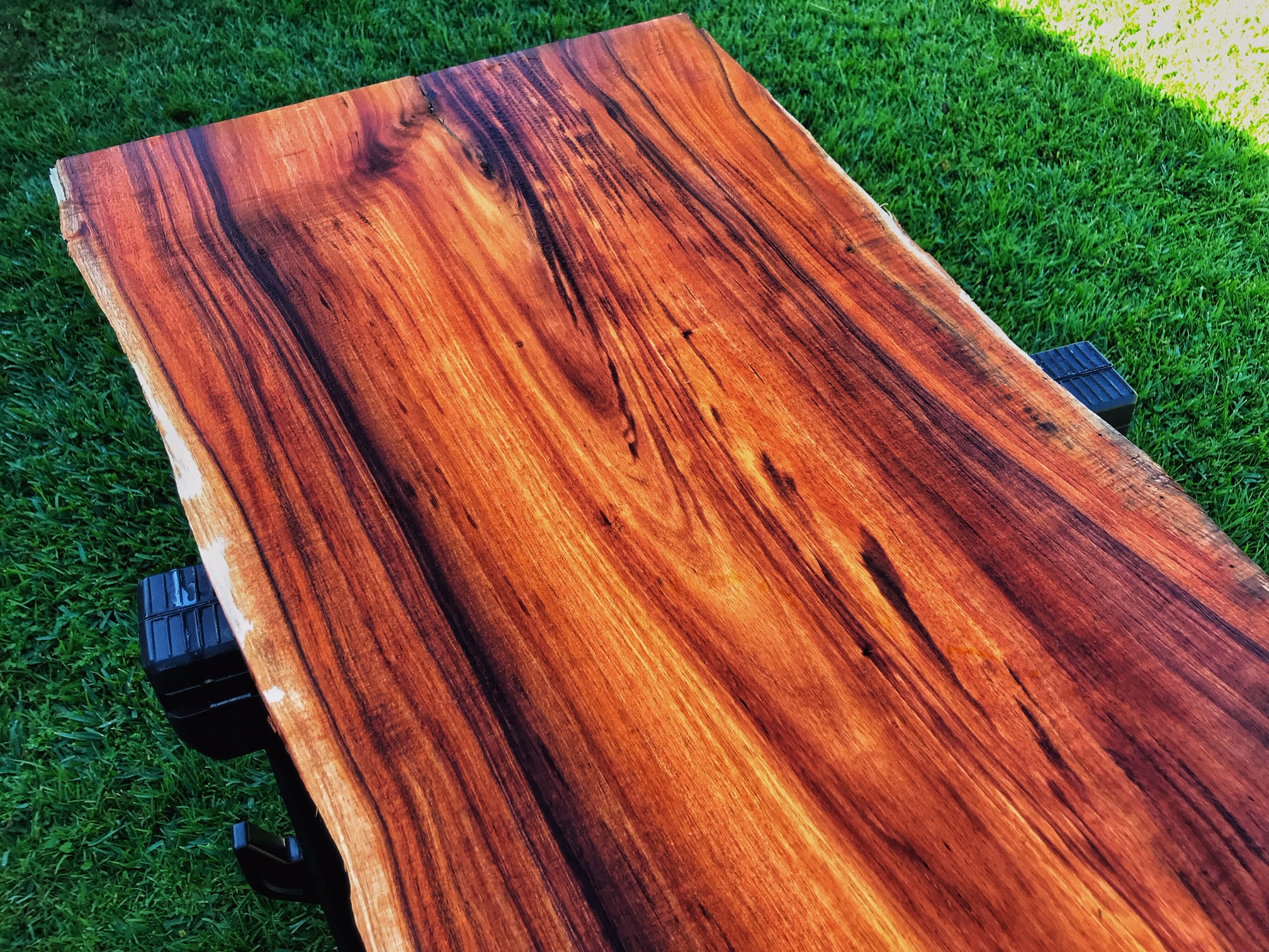 This is a live-sawn microslab section of Hawaiian Koa wood. Approximate dimensions are 5/16" thick, 20" wide, 60" long.